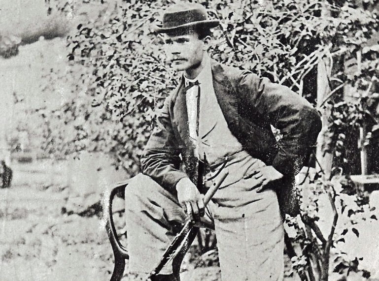 Valentin Wolfenstein in Mexico with flute